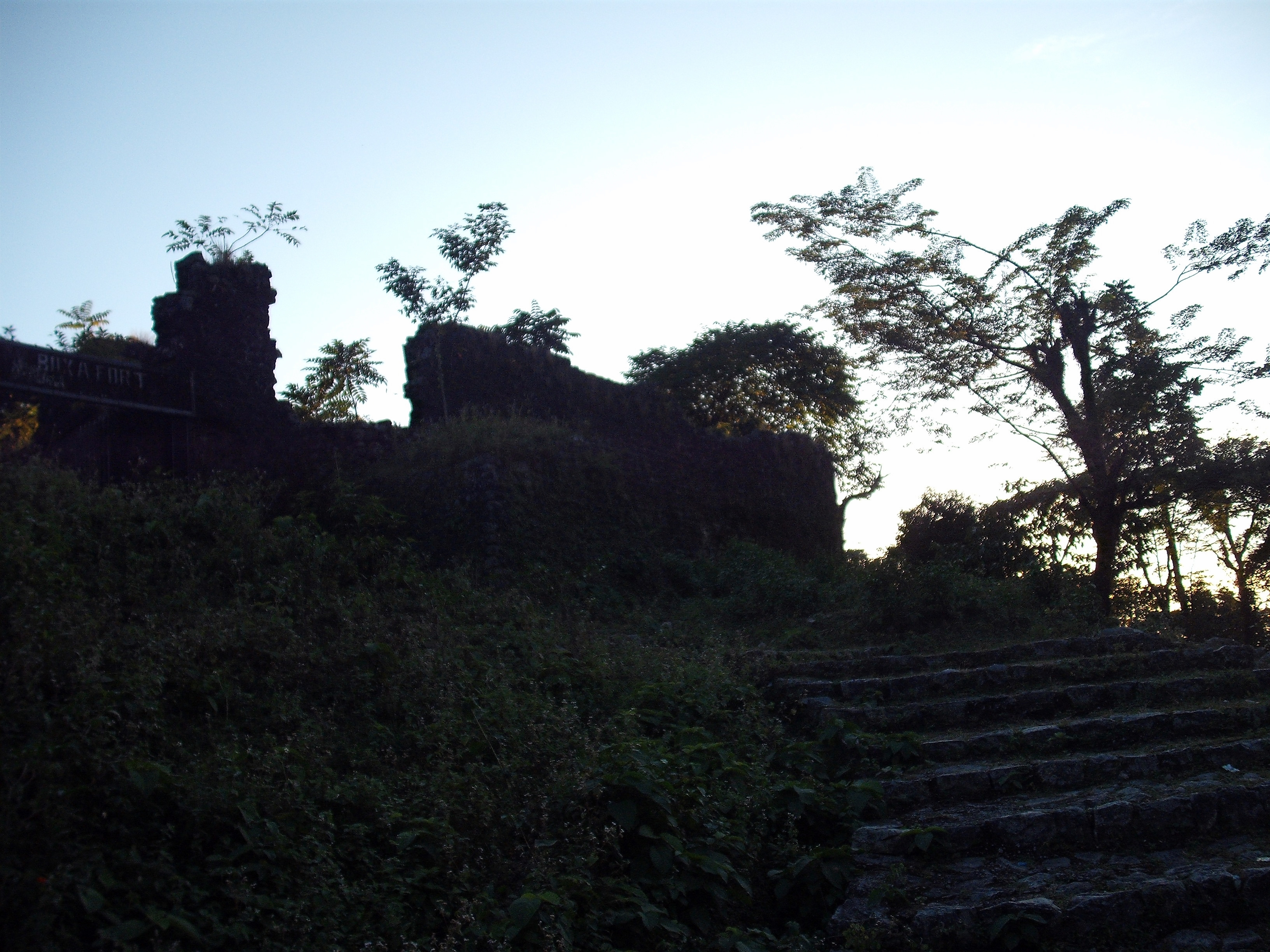 Shot during a documentary making trip to Duars, North Bengal. The historic Buxa fort atop Buxa hill, North Bengal.